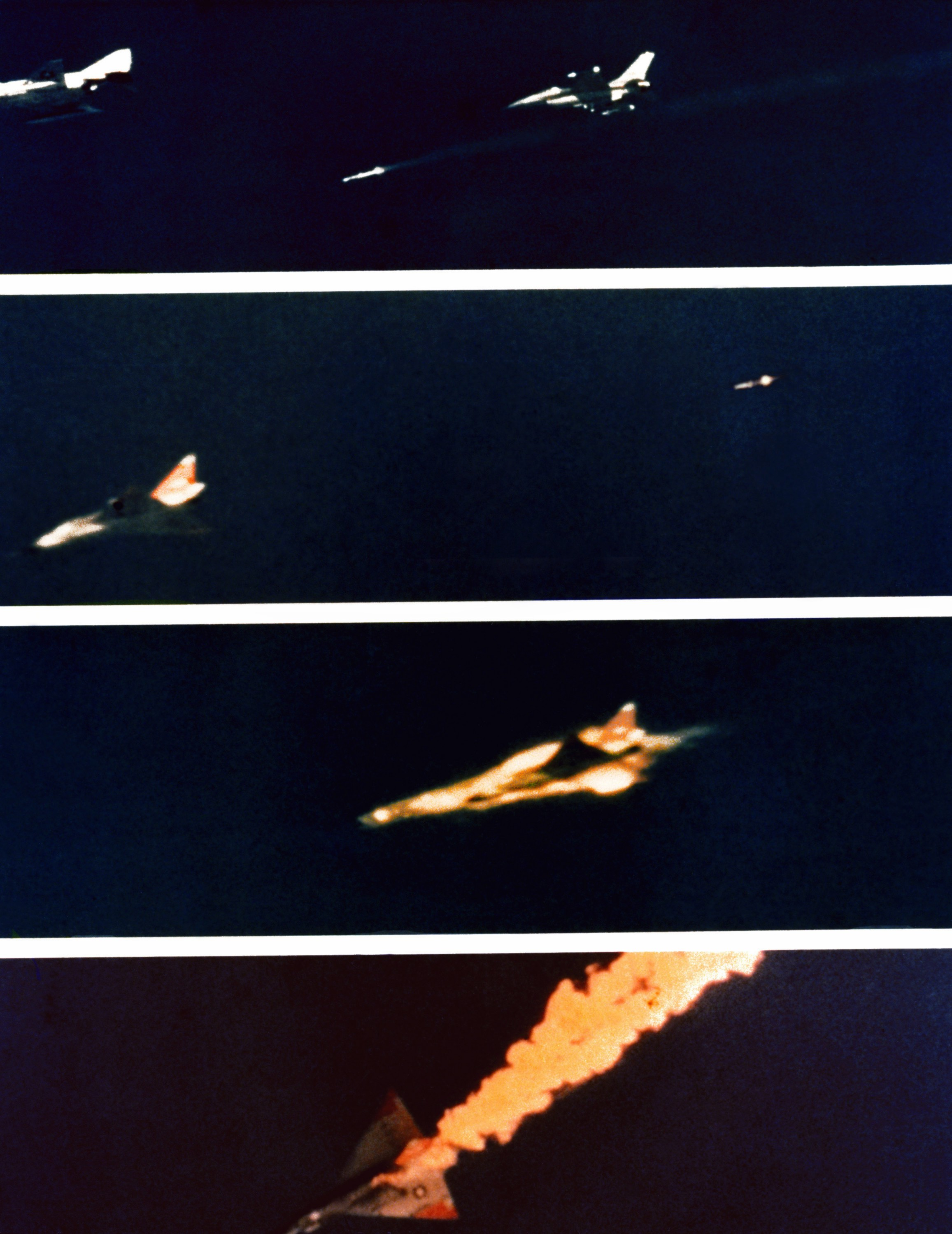 A series of four views showing, from the top, a U.S. Air Force General Dynamics F-16 Fighting Falcon aircraft launching a Hughes AIM-120 AMRAAM past an McDonnell F-4 Phantom II chase plane; the missile approaching and then exploding a Convair QF-102A Delta Dagger target drone; and the target going down in flames. The photos were taken in 1982 at the White Sands Missile Range, New Mexico (USA). It was the first time an AIM-120 was tested successfully.